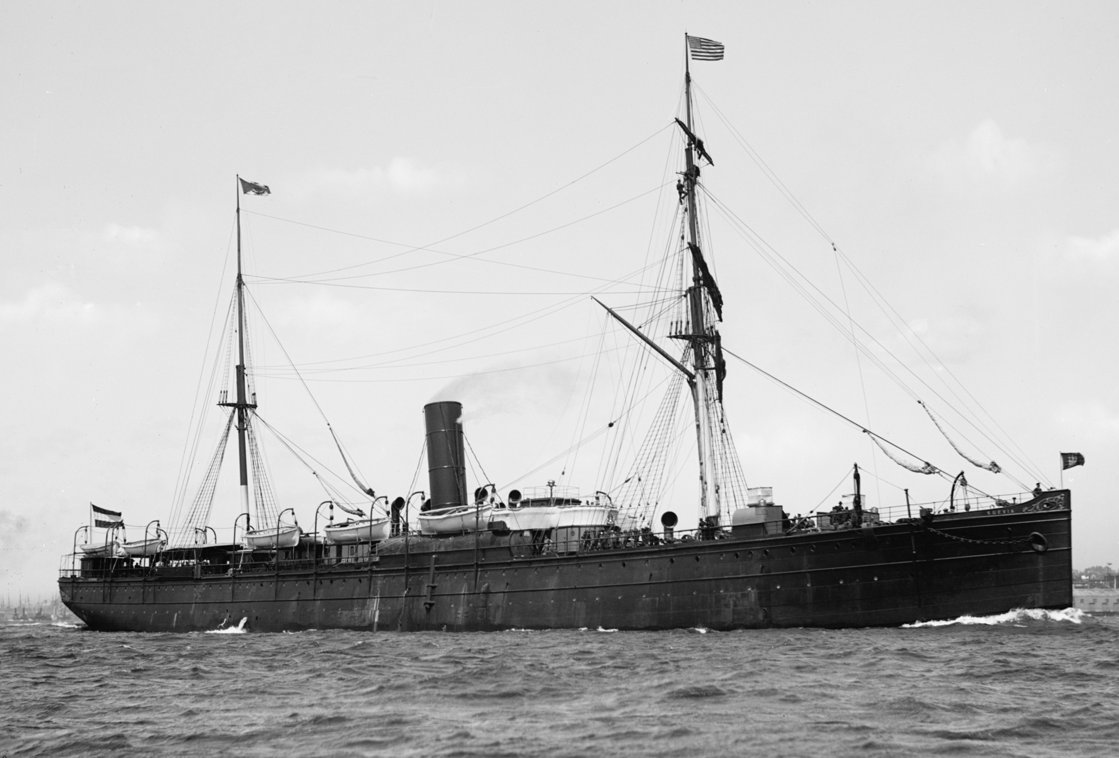 The liner Suevia, sometime between 1890 and 1894